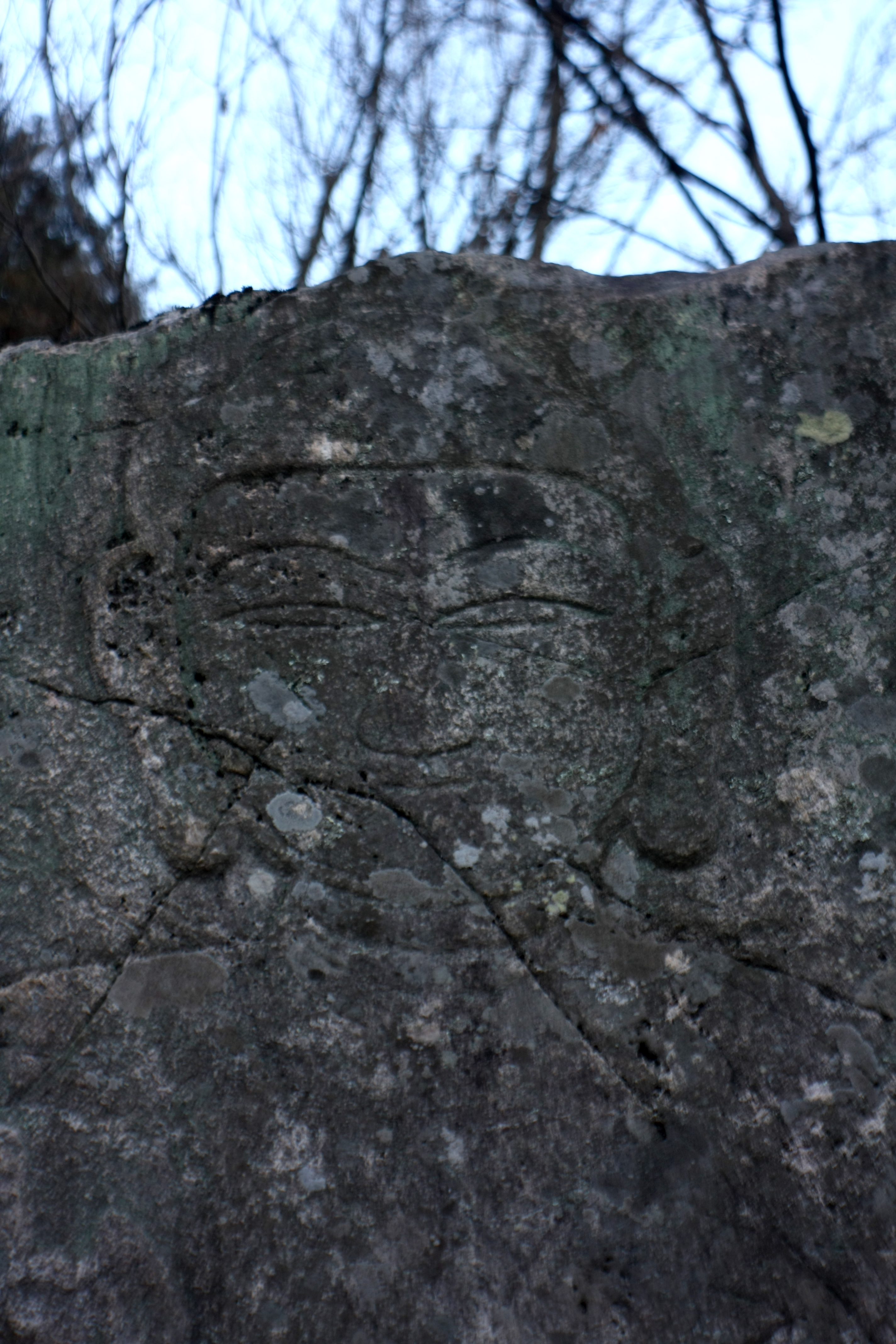 Seated Buddha statue Carved on the Rock in Goesan Sambangni